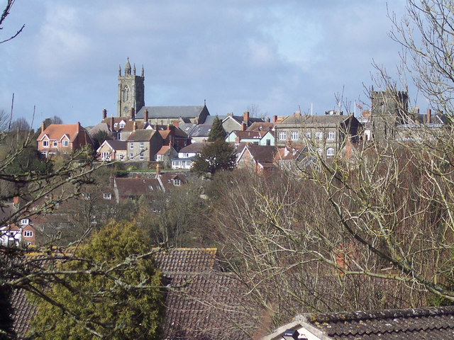 View of Shaftesbury from Great Lane